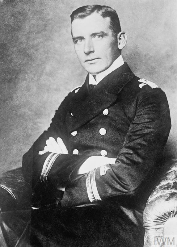 THE GERMAN NAVY IN THE FIRST WORLD WAR Portait of First Lieutenant Hellmuth von Mucke, the First Officer of the German light cruiser SMS Emden.